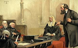 Caricature of The Lords Northbrook, Granville, Selbourne and Salisbury. Caption read "Purse, Pussy, Piety and Prevarication".